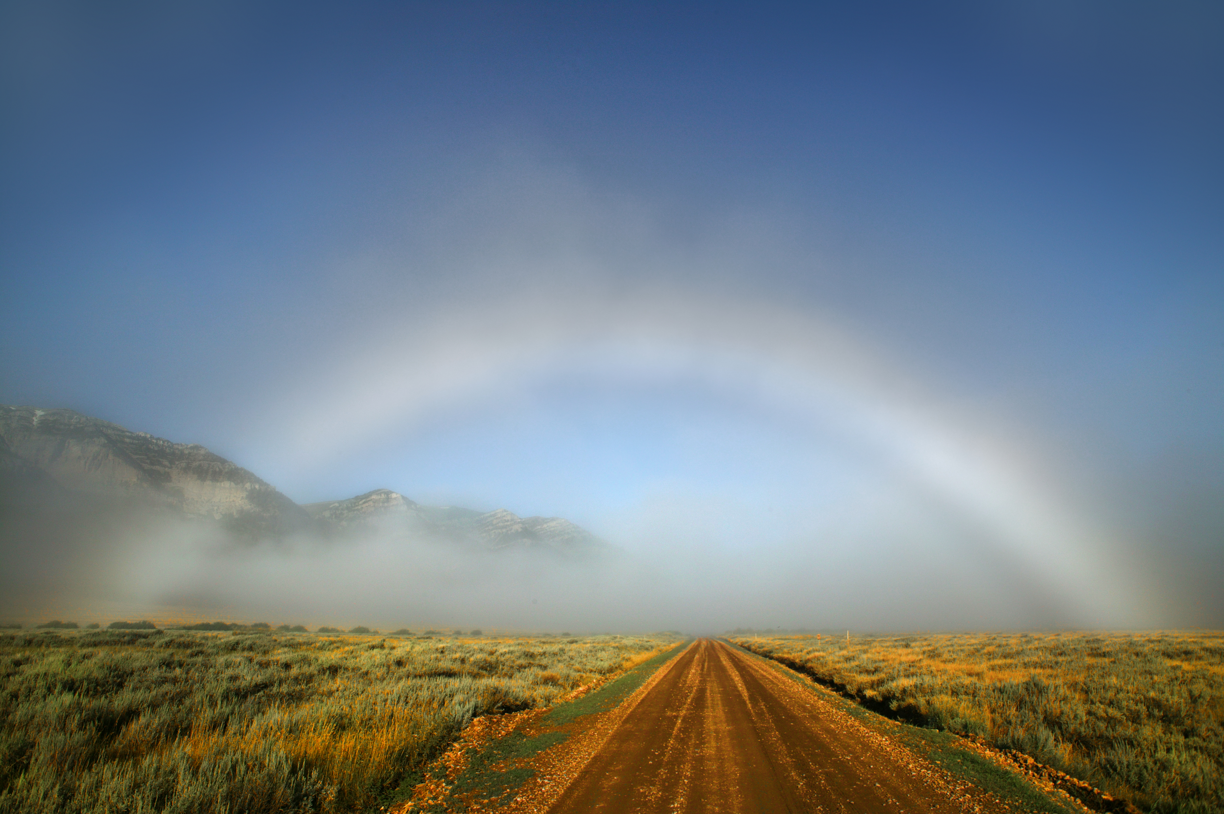 Fogbow centered on South Valley Road in Red Rock Lakes National Wildlife Refuge. Fogbows form in the same way as rainbows. A small fraction of the light entering droplets is internally reflected once and emerges to form a large circle opposite the sun. Fogbows are formed by much smaller cloud and fog droplets than the raindrops that form rainbows. Credit: James "Newt" Perdue / USFWS Photo Contest Entry #130